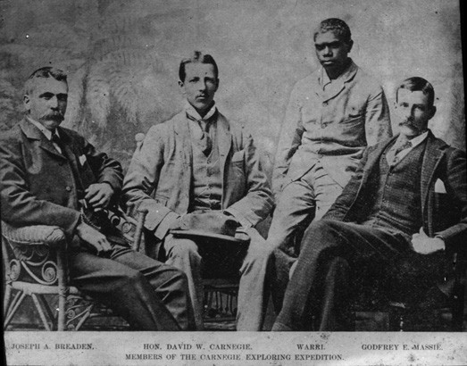 This image shows a photograph of David Carnegie and three other members of his exploring expedition, circa 1897. The original photograph is held by the State Library of Western Australia. Their catalogue states that it was taken from an unknown published source. A digital image of the photograph was created by the State Library of Western Australia and is available from the Library Information Service of Western Australia (LISWA) website. The LISWA image includes an assertion of copyright 2001, but this assertion is incorrect: the image is in the public domain under both Australian copyright law and US copyright law. This digital image is a cropped version of the LISWA digital image that eliminates the incorrect copyright notice.